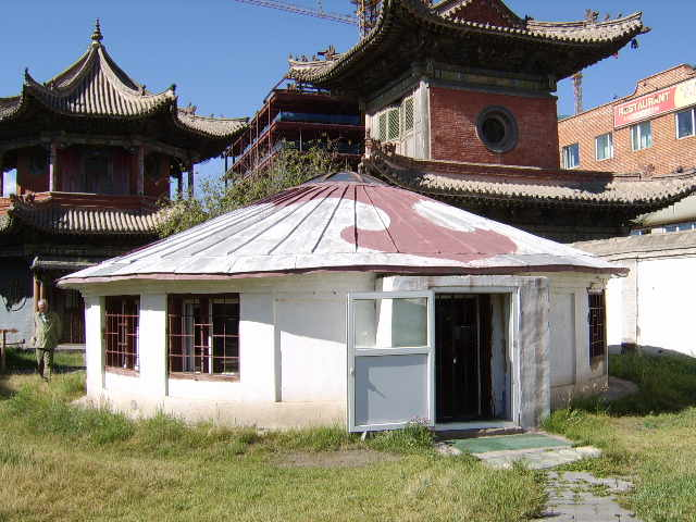 Yurt shaped temple in Ulaanbaatar, at the Choijin Lama Temple. Beginning of XX century.